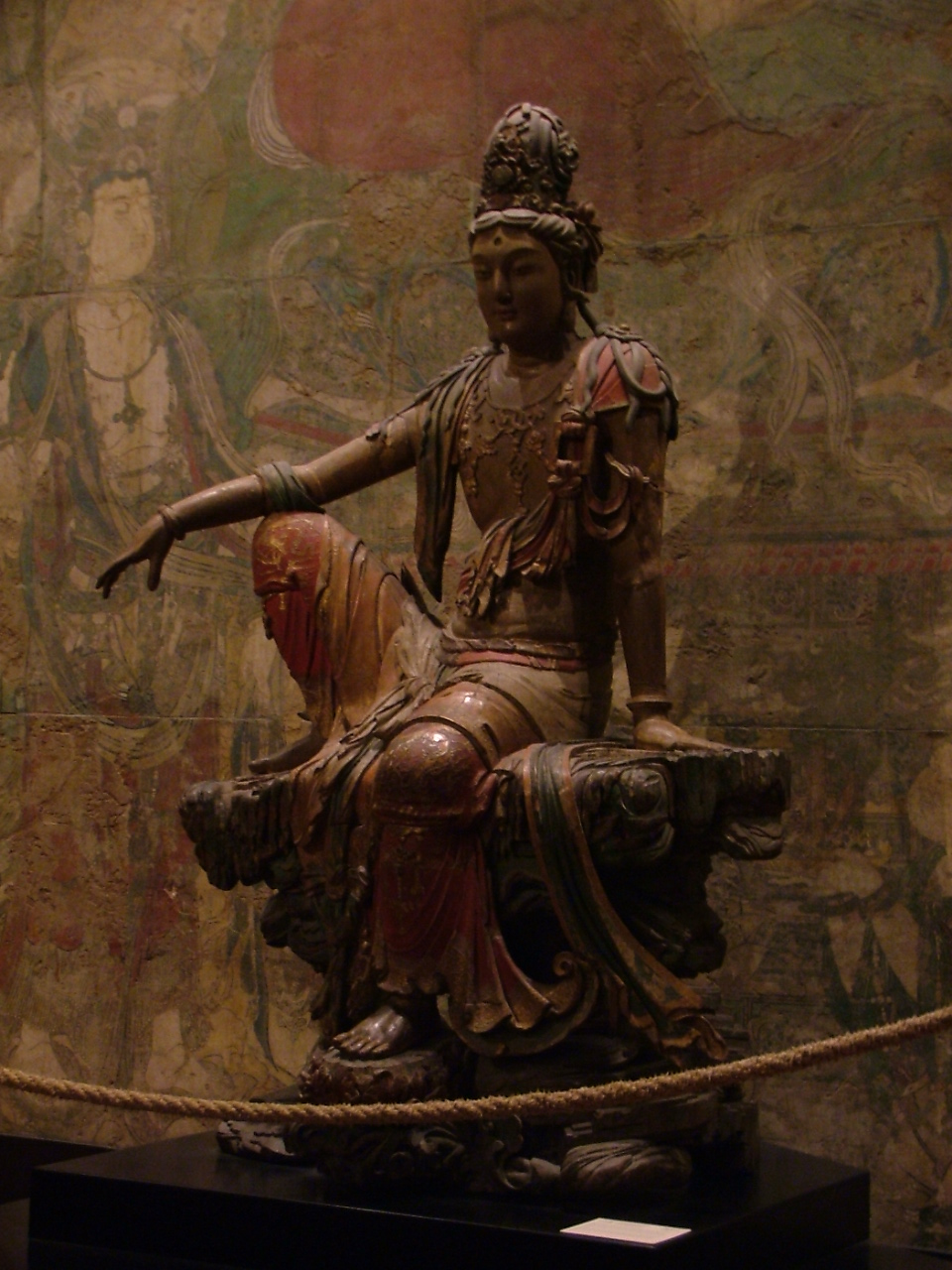 Bodhisattva Guanyin; 11th/12th century A.D.; Polychromed Wood; Chinese; Shanxi Province; Liao Dynasty (A.D. 907-1125) Nelson-Atkins Museum Collection; Kansas City, Missouri